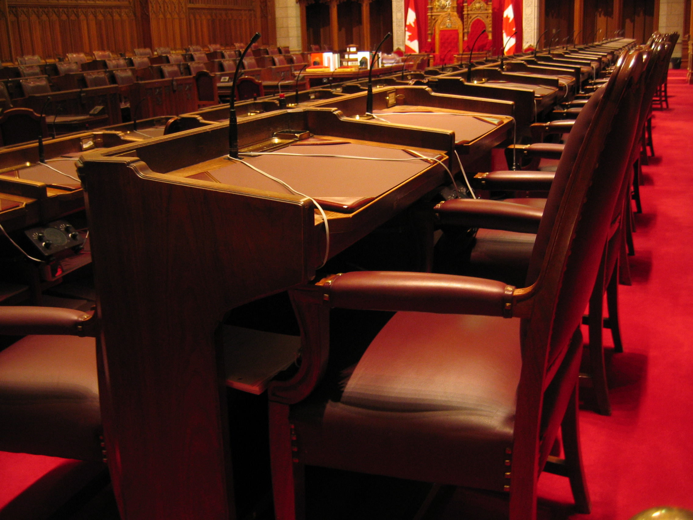 Inside the Senate of Canada